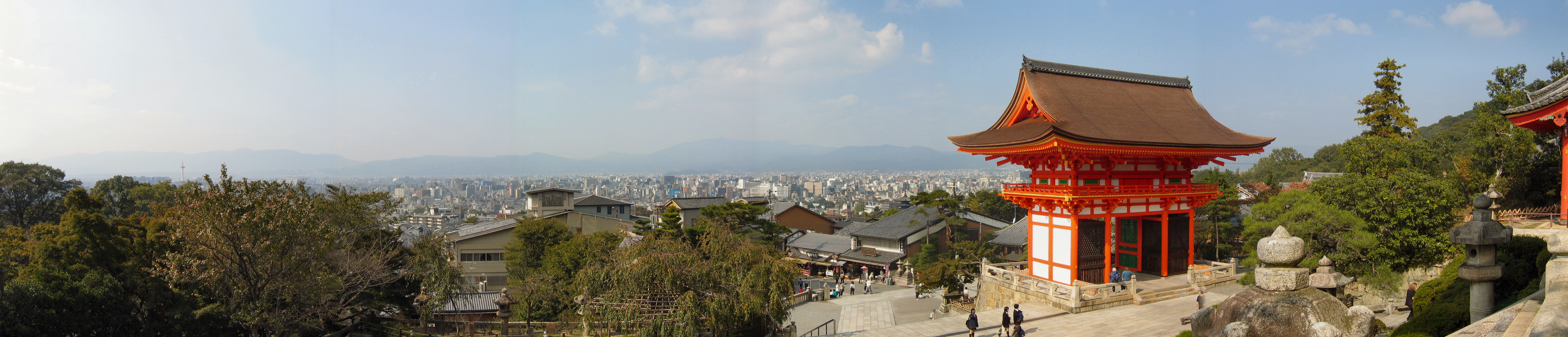 Panoramic view from Kiyomizudera temple in Kyoto. More pictures at